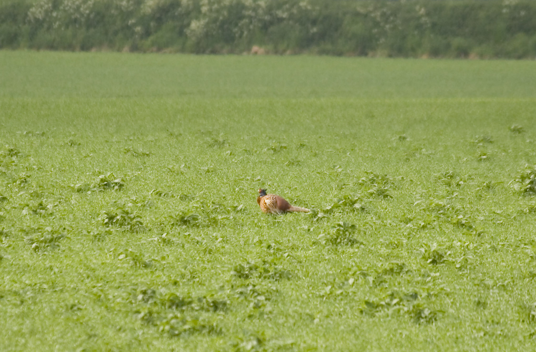 A Common Pheasant on Carrington Moss, Greater Manchester.